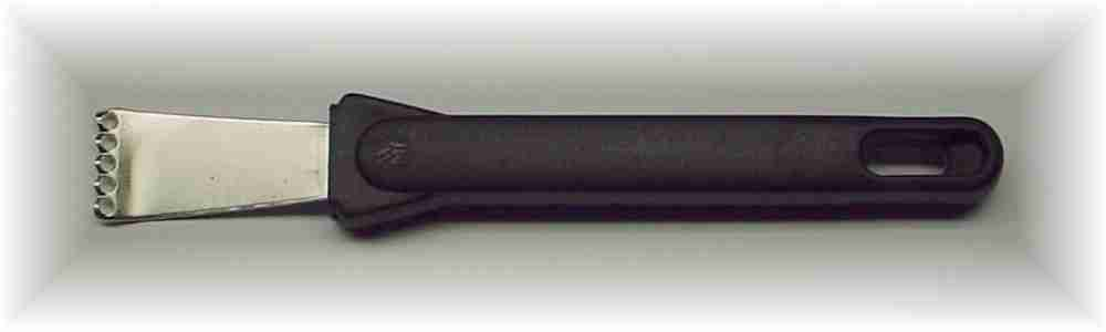 Zester